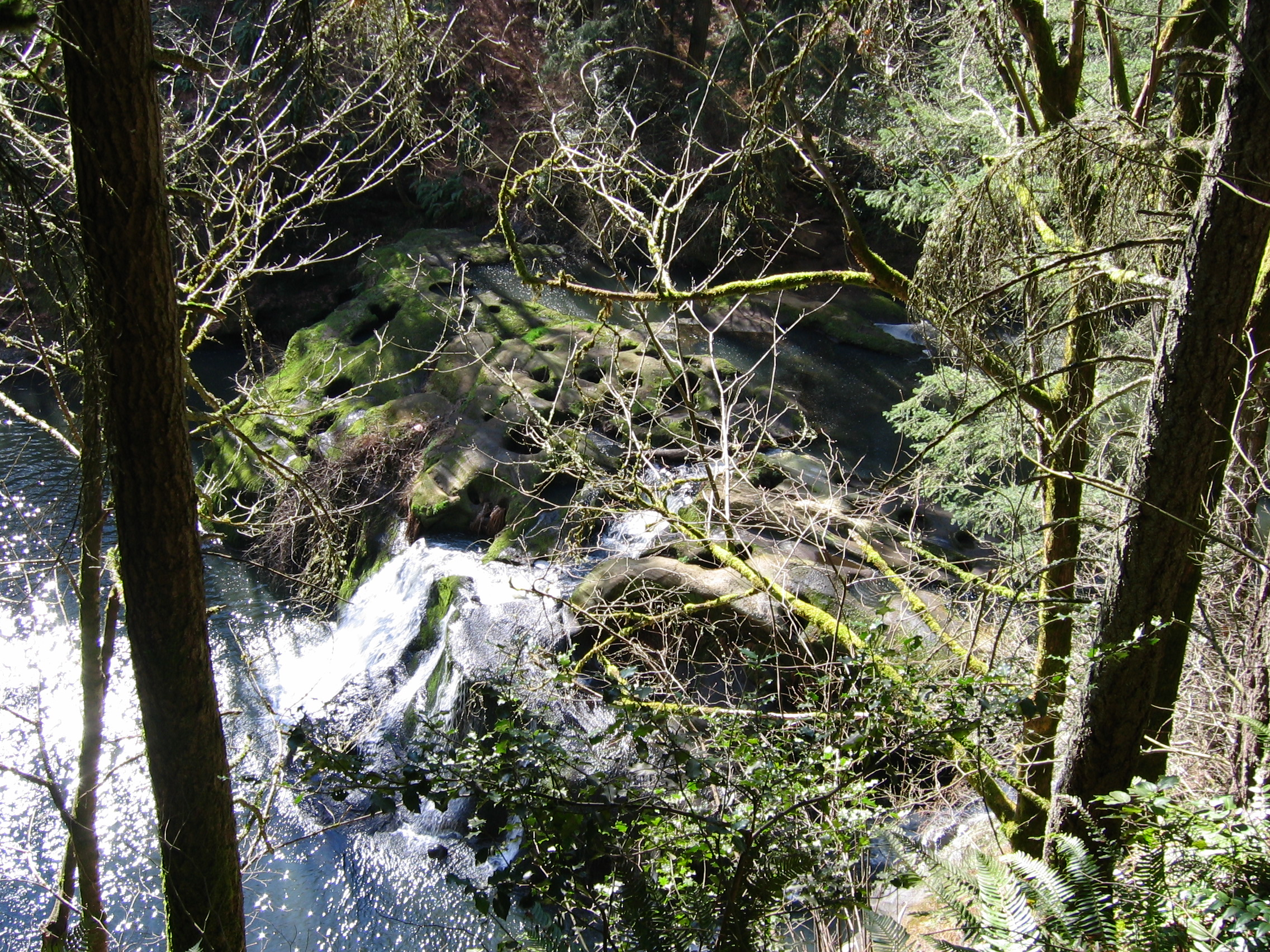 Picture of the Camas Potholes in Camas.